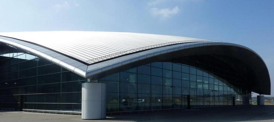 Rzeszow - Jasionka (RZE) International Airport - Poland [terminal]